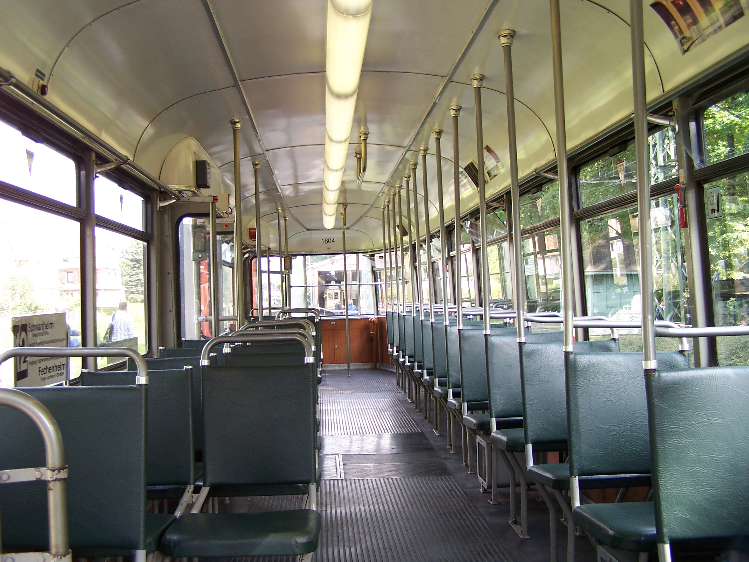 inside view of m-type tram trailer 1804 at the Frankfurt on Main Transport Museum in Frankfurt am Main--Schwanheim